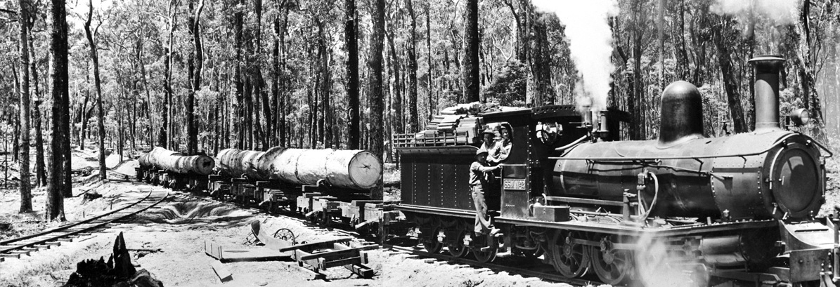 State Saw Mills G Class Locomotive No2 named 'The Hewer' hauling a timber train in the Manjimup and Pemberton areas, Western Australia. G Class SSM 2 was purchased from Beyer Peacock in 1911 by the South West Timber Hewer's Co-Operative Society and entered service in Collie at the Lucknow Mill and later at the Holyoake Mill before being taken over by the State Saw Mills where it was transfered to Dean Mill. SSM 2 worked between Dean Mill and the Pemberton State Saw Mills and ended its service at Dean Mill in February 1967.